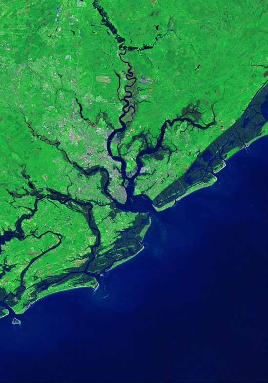 Satellite image of Charleston, South Carolina